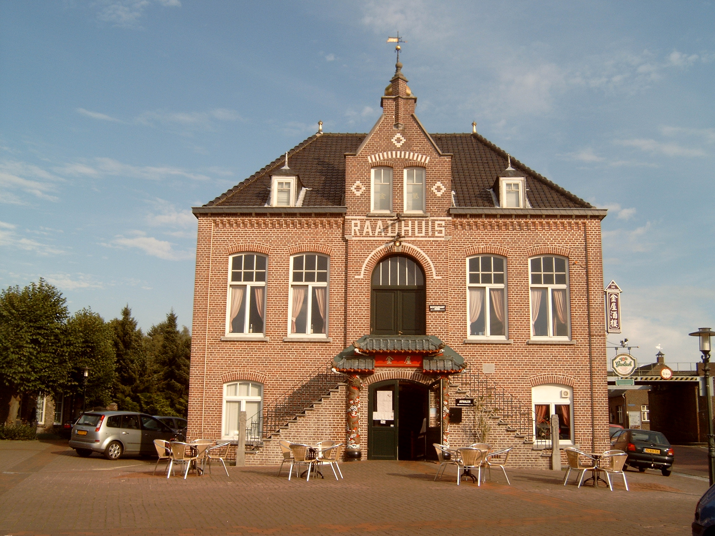 Belfort, former town hall